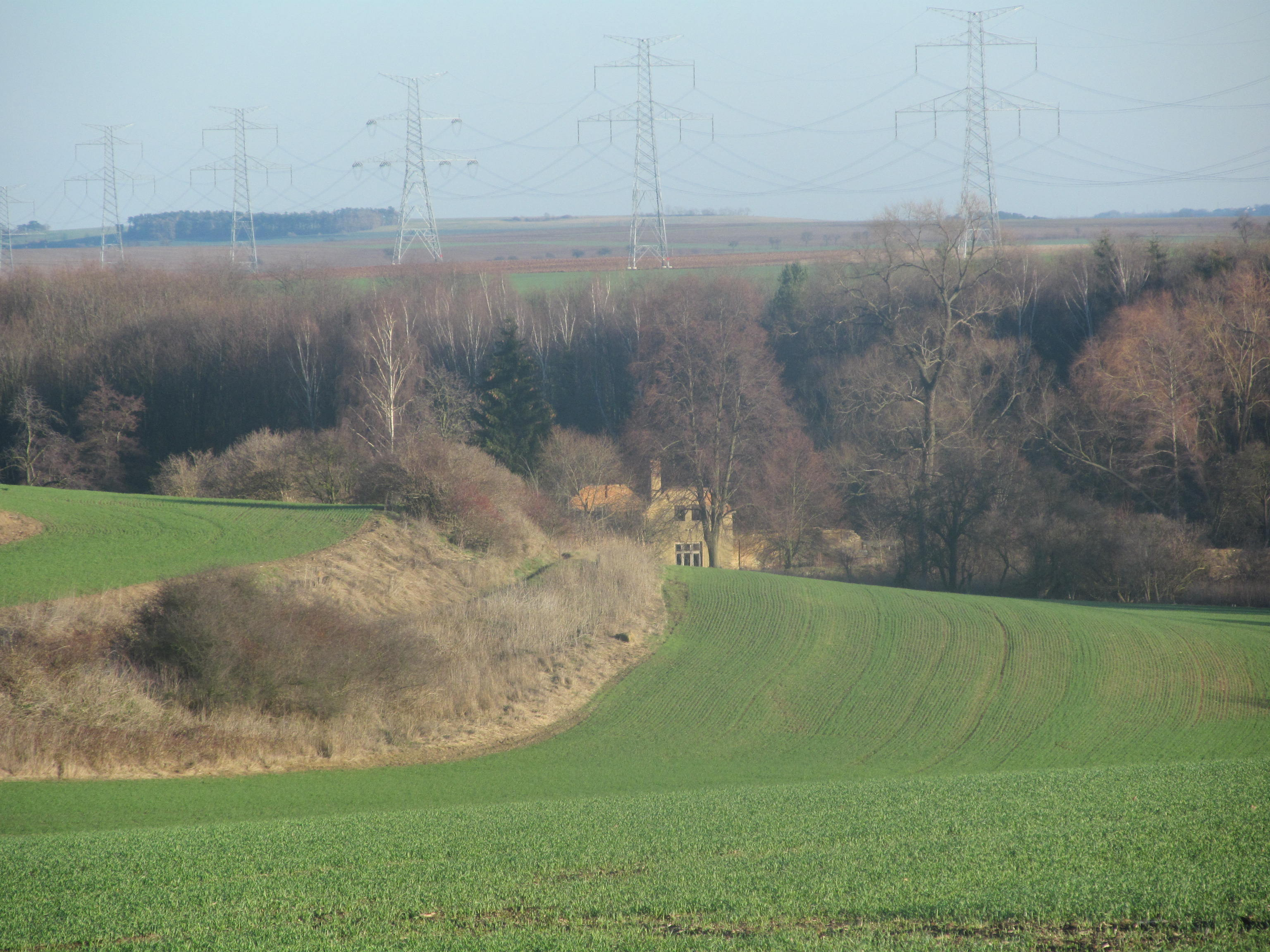 Former Pacovský mill from northwest